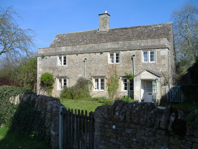 Cottage, Church Street Some scenes from a Harry Potter film, were shot inside this house.